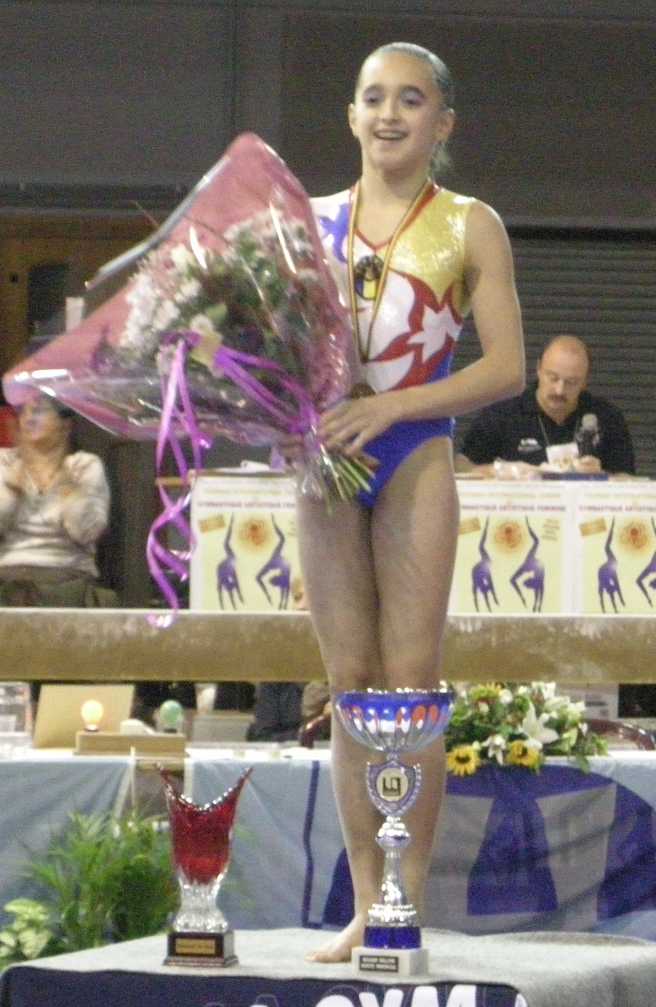 Larisa Iordache on the podium at Top Gym competition in Belgium November 2009.